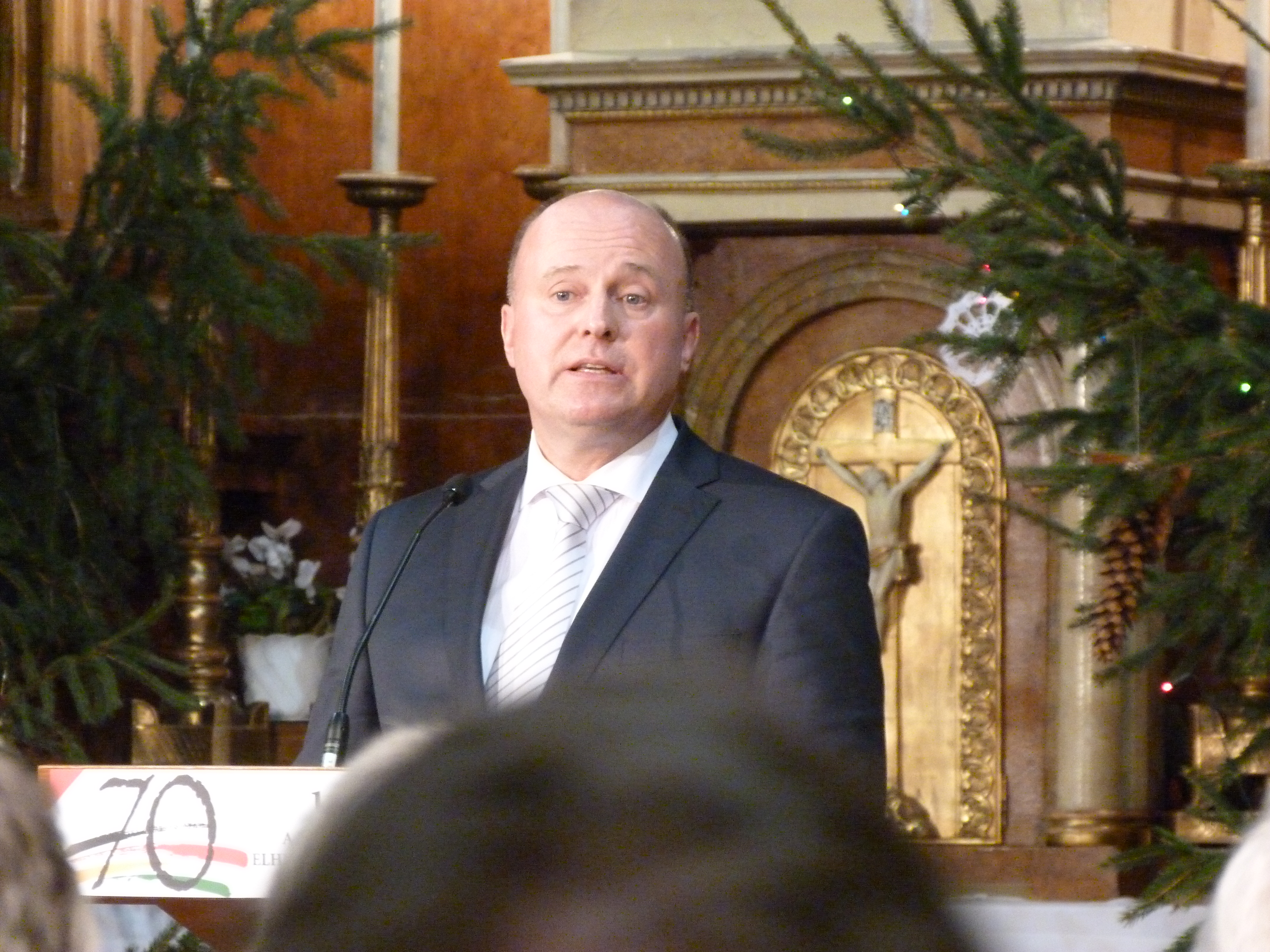 Abduction of the germans of Hungary – 19th of January, 1946 - 19th of January, 2016. Hartmut Koschyk speaking. 70 years ago, on the 19th of January, 1946 the abduction of germans from Hungary had begun from Budaörs, Hungary.